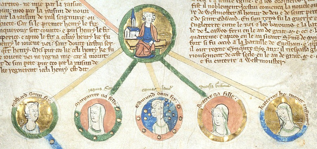 Henry III